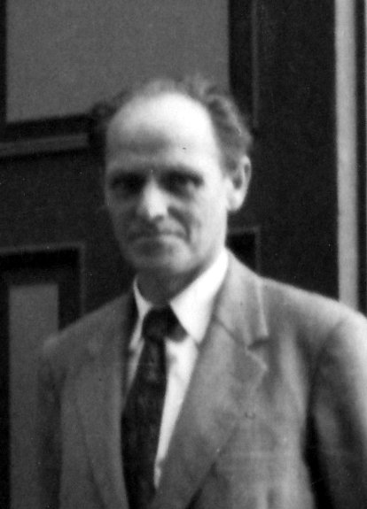 Priest and politician, Johnny Bakke apx 1955